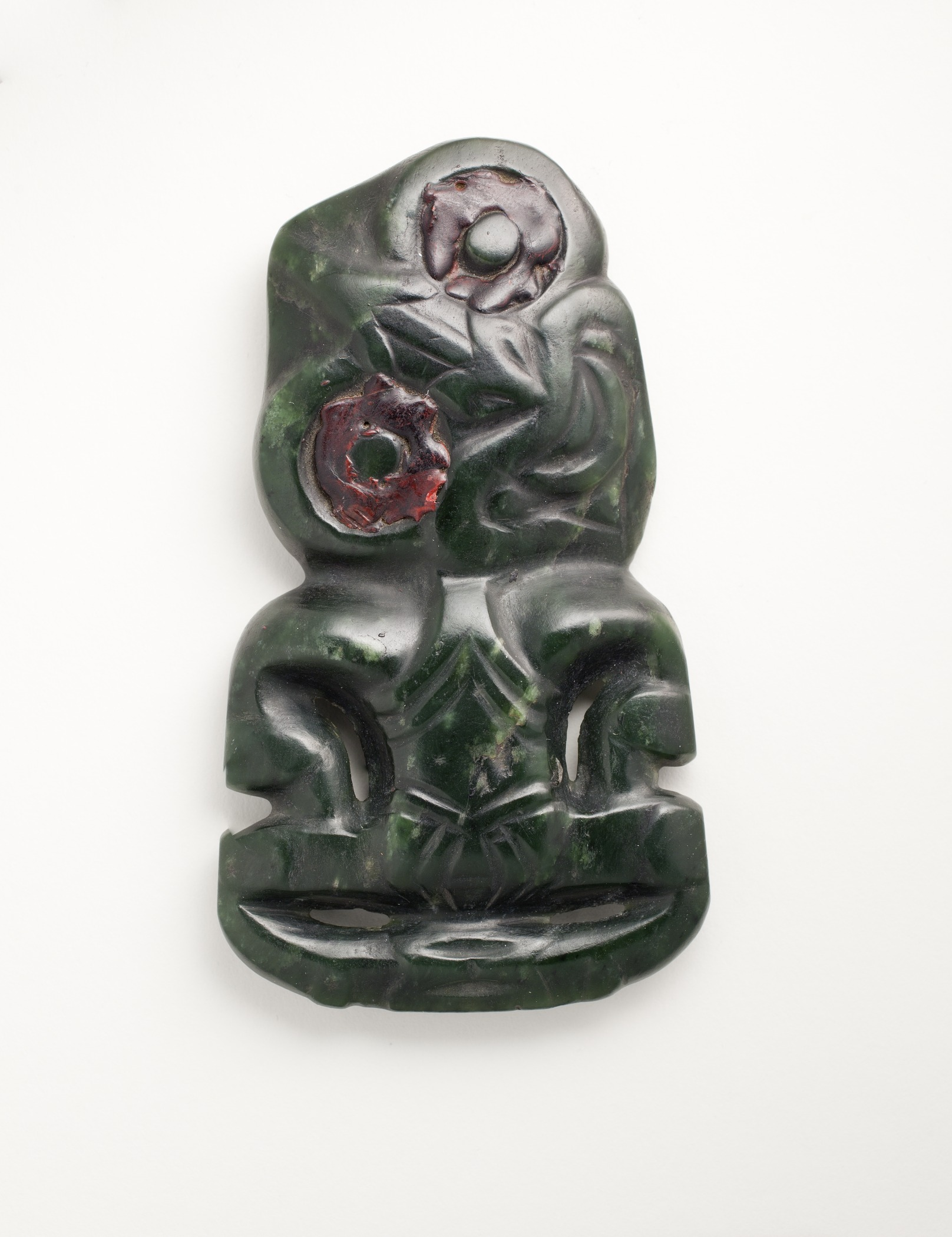 New Zealand (Aotearoa), Maori, circa 18th century Jewelry and Adornments; pendants Nephrite and Haliotis shell The Phil Berg Collection (M.71.73.156) Art of the Pacific